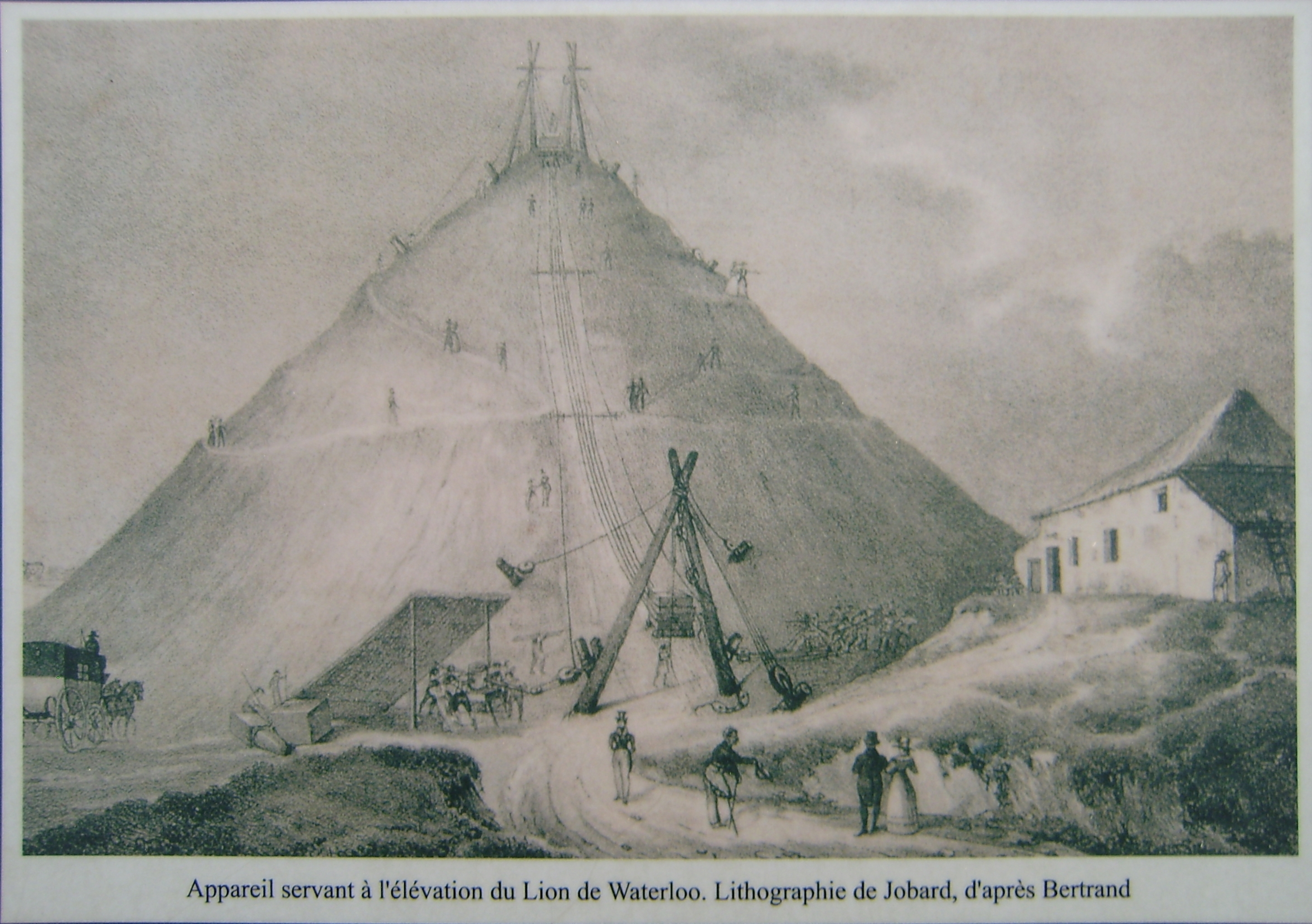 Engraving showing the erection of the Waterloo mound. It specifically illustrates the system designed to raise atop the hillock the nine pieces of the bronze lion. Dated 1825. Lithography by Marcellin Jobard after a Bertrand drawing